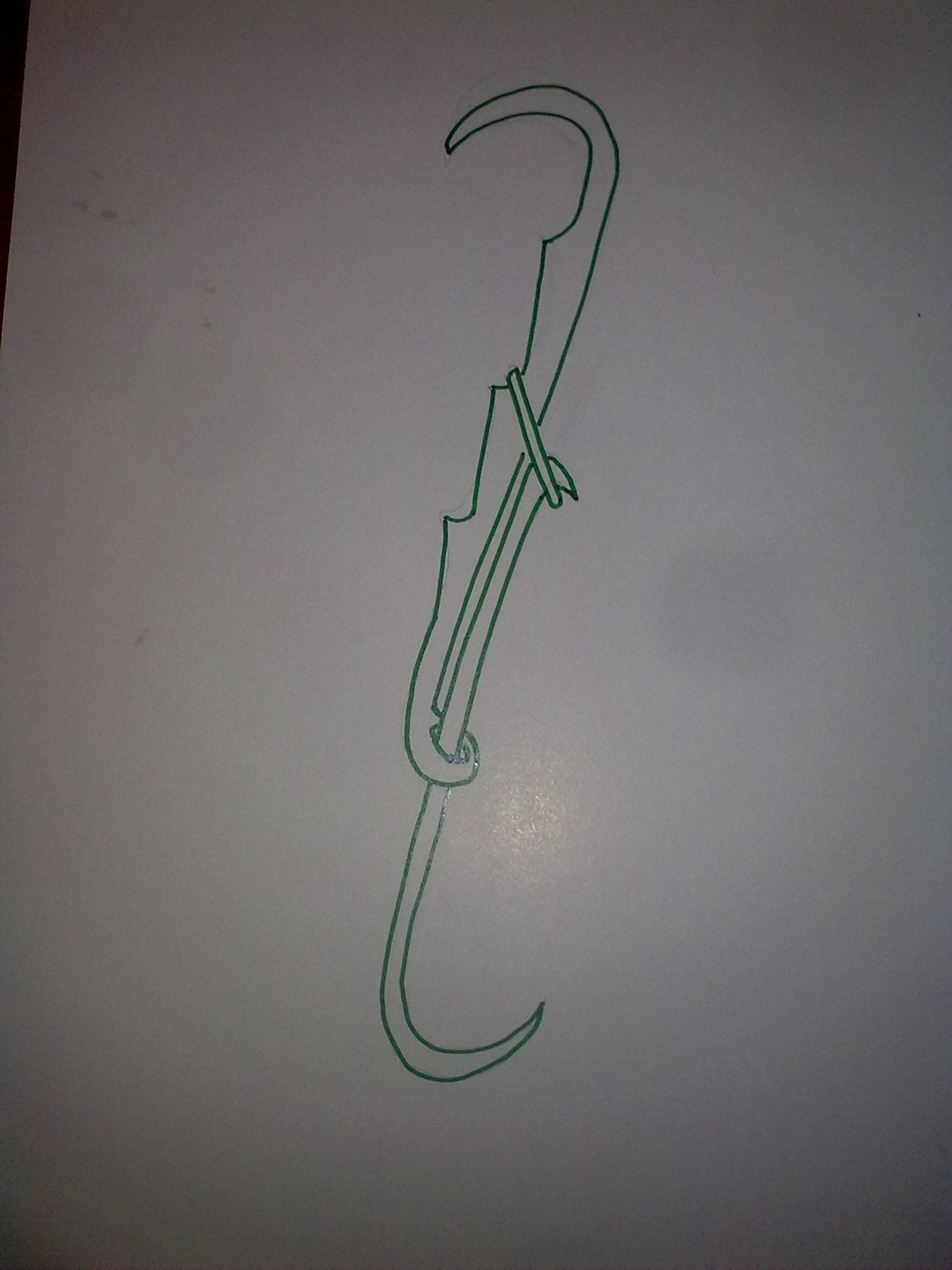 This is a drawing of a (historical) kitchen utensil called "haahla" in Finnish. It consists of two interlocked hooks and it has been used to hang a pot over an open fire hearth. The upper hook was used to hang the device to a horizontal rod or similar and the pot was hanging from the lower hook. The notches in the shaft of the upper hook make it possible to regulate the height of the pot.